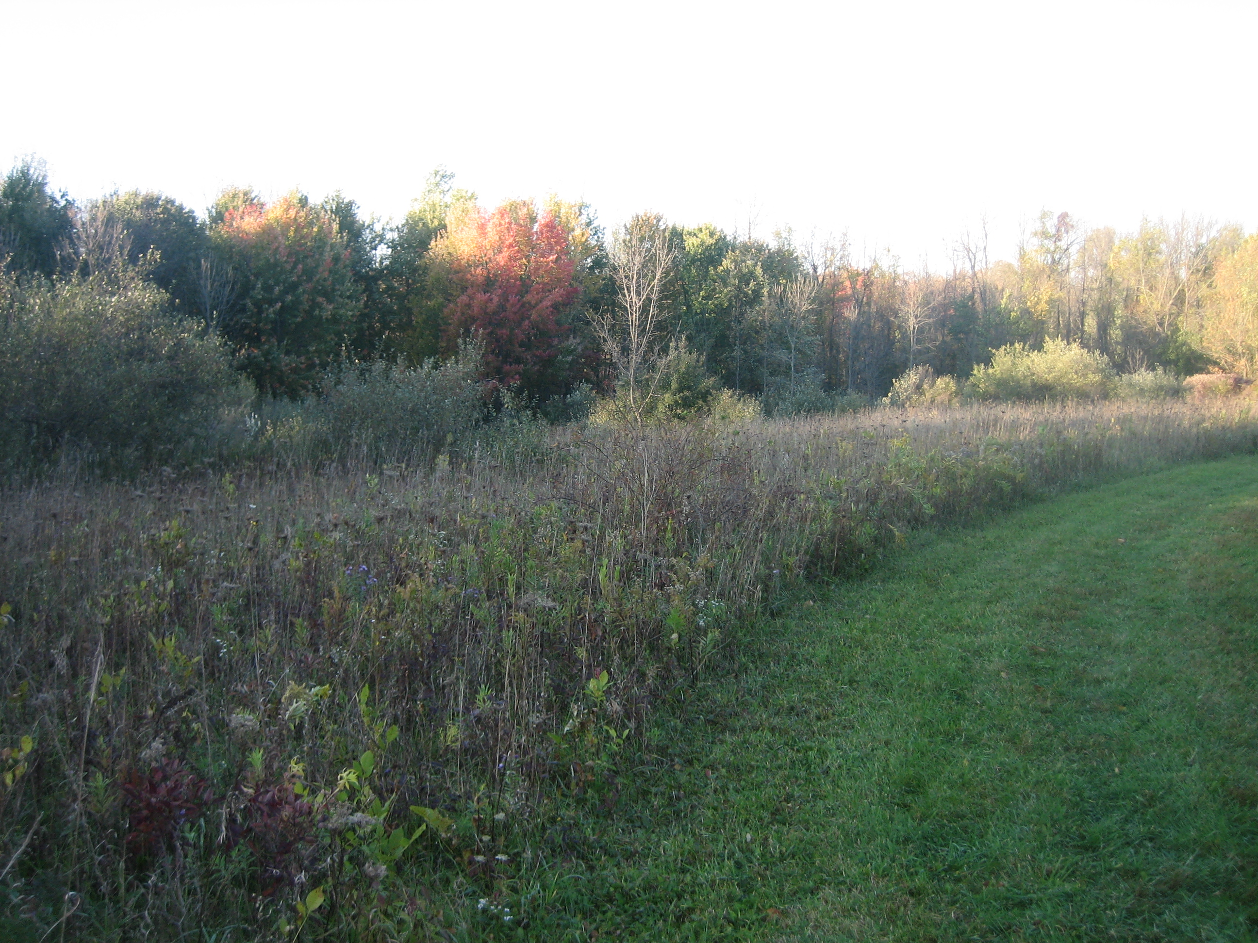 Black Creek Park, in Monroe County New York; view from the Wetlands trail in October.